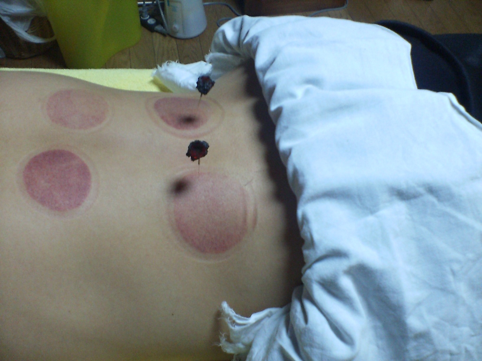 Taking moxibustion after taking acupuncture.(Kyutoshin)